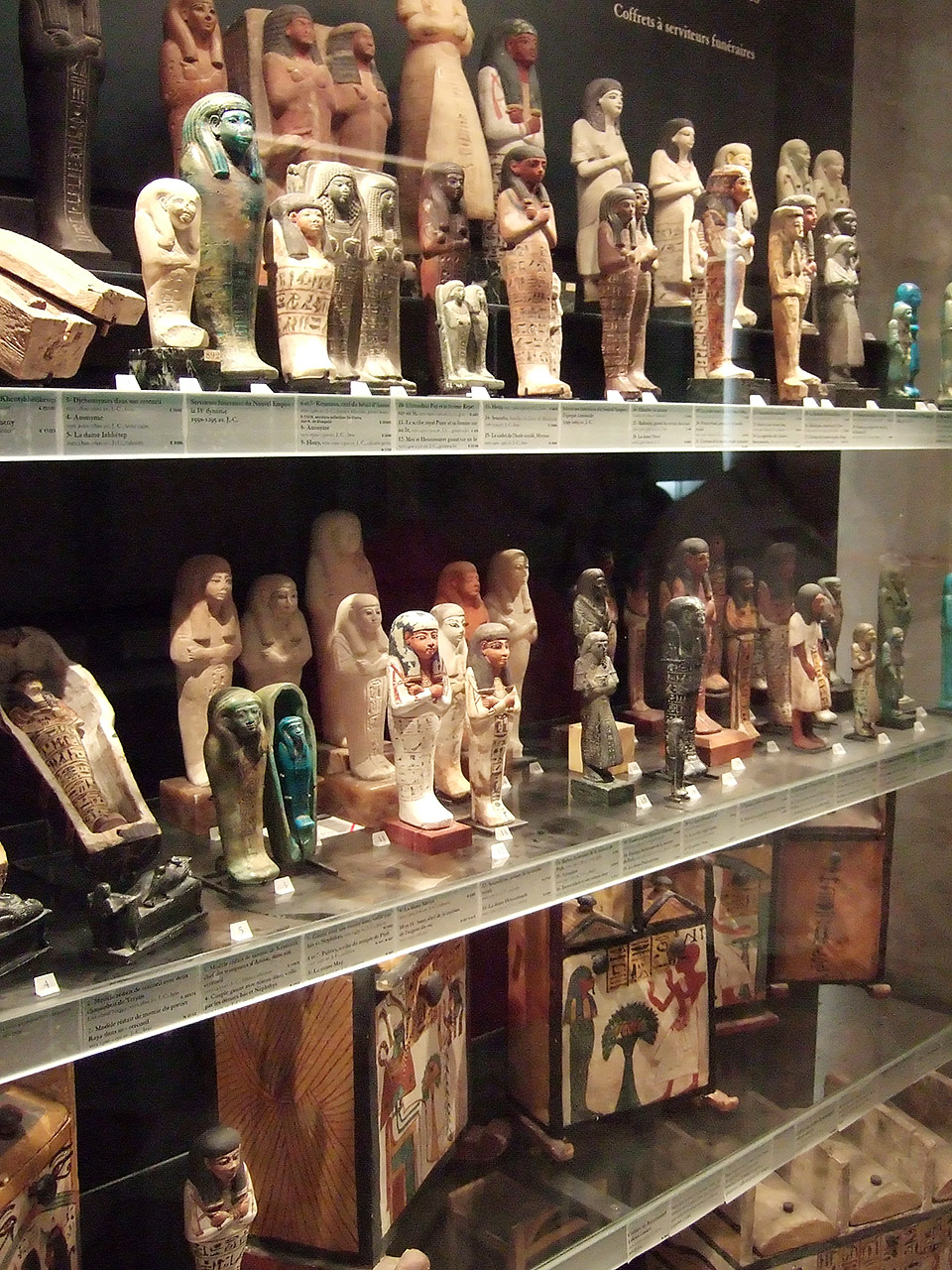 Egyptian funerary figurines at the Louvre. Fuji F11 Camera at ISO 1600.